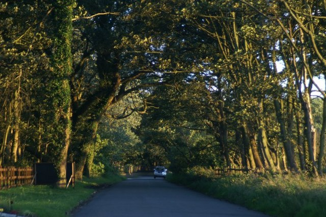 Trees at Formby Hall in late evening light.